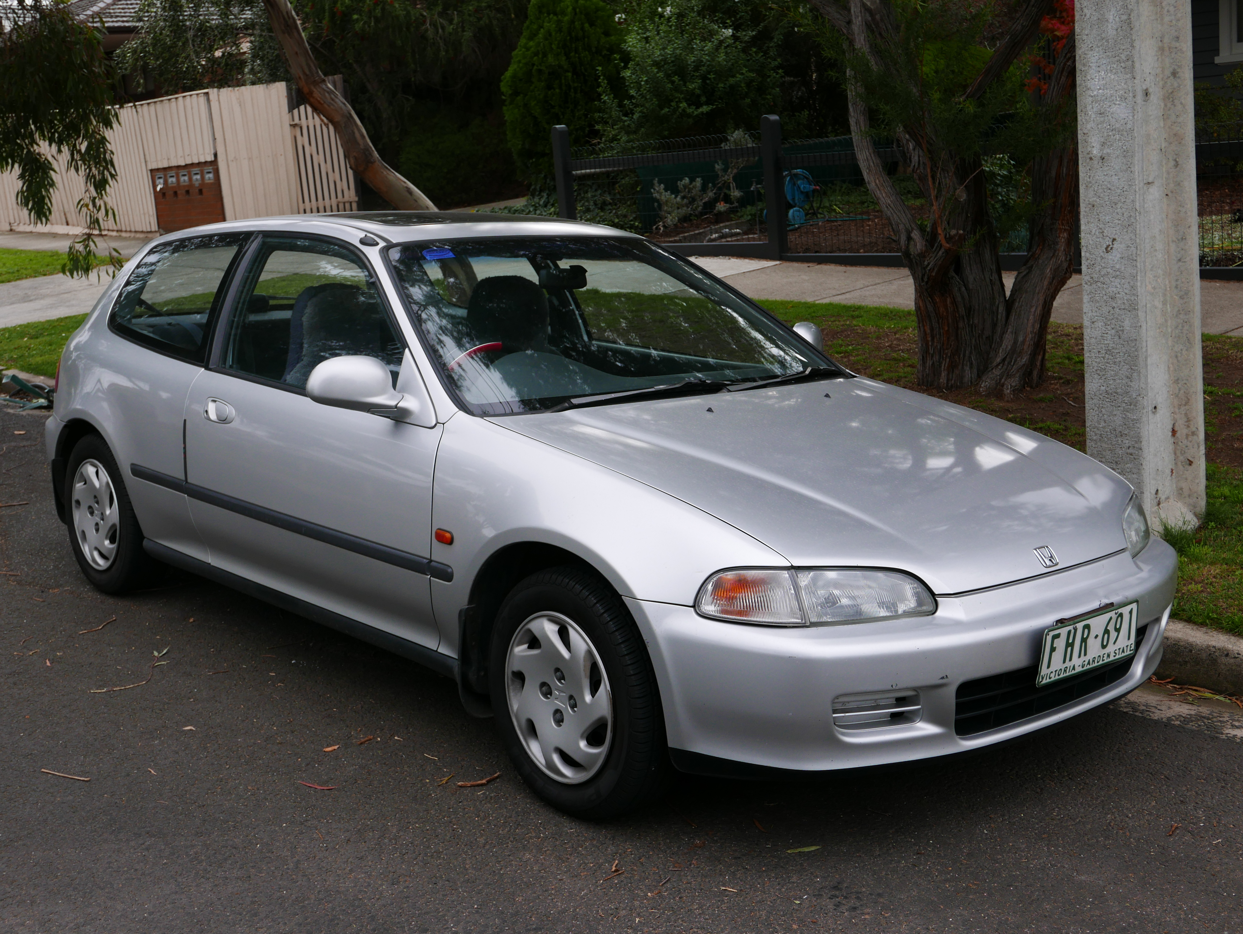 1993 Honda Civic VTi 3-door hatchback. Photographed in Thornbury, Victoria, Australia. Vehicle registration enquiry results Jurisdiction Victoria Registration FHR691 Chassis code JHMEG53800S200229 Engine code D16Y11000091 Compliance date 1993-10 Year of manufacture 1993